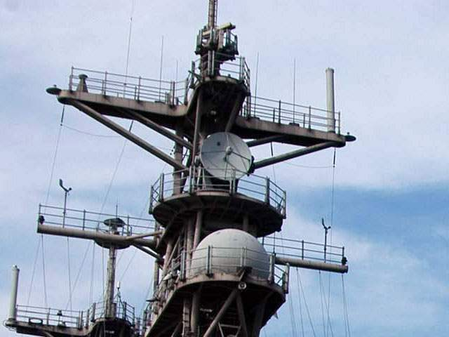 050921-N-0899S-001 San Diego (Sept. 21, 2005) – USS Cushing (DD 985), the last Spruance-class destroyer, is decommissioned on the ship’s 26th anniversary. Speakers for the decommissioning ceremony included Cushing’s first commanding officer, Rear Adm. William C. Miller (Ret.) and the ship’s current commanding officer, Cmdr. Steven A. Mucklow. U.S. Navy photo by Journalist 3rd Class Cynthia R. Smith (RELEASED) The lower radar located inside the dome is the AN/SPQ-9A radar. The dish radar above the dome is the AN/SPG-60 radar. Both radars are part of the MK-86 Gun Fire Control System.